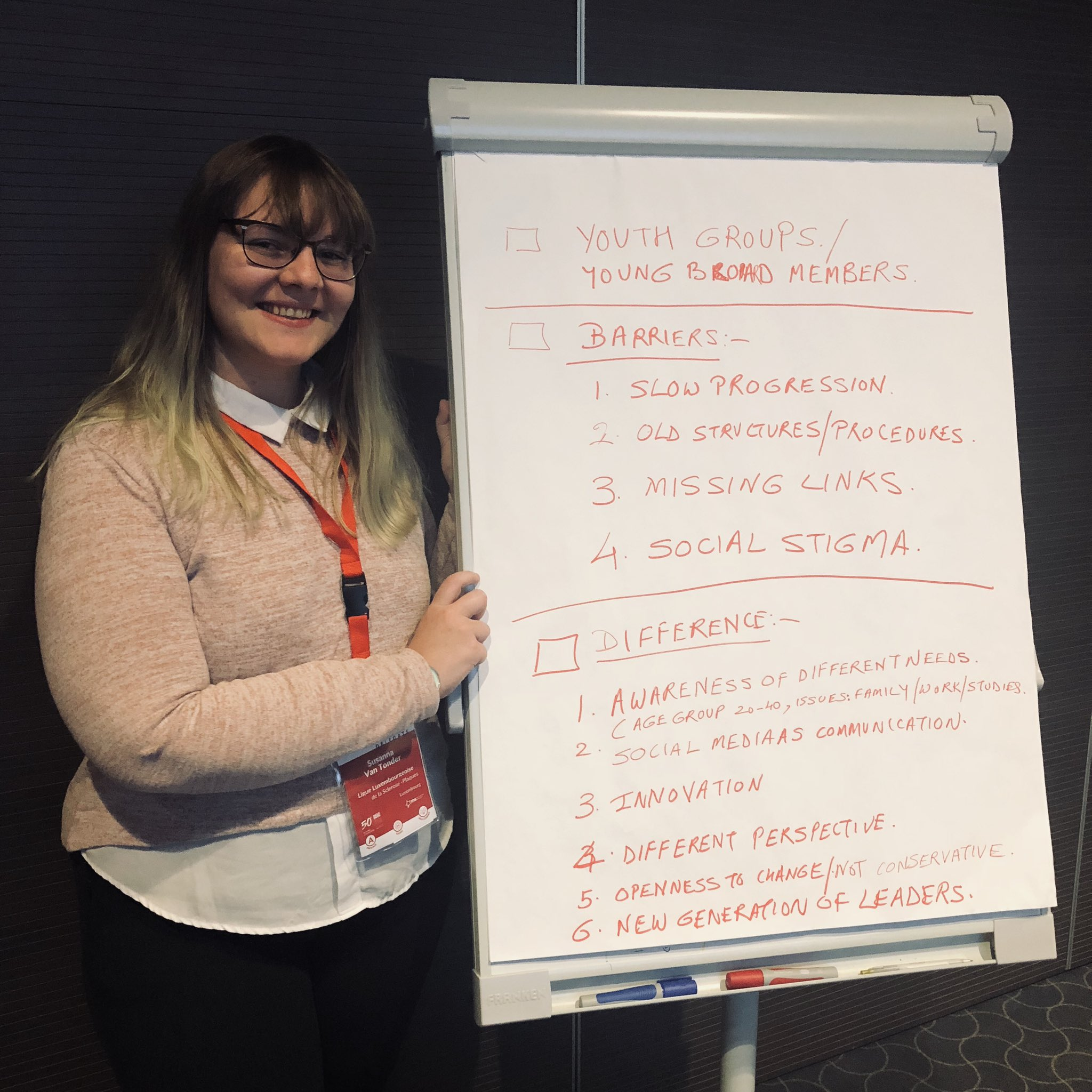 Susanna with white board